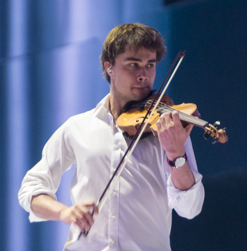 Alexander Rybak during the Eurovision Song Contest 2016 in Stockholm. (Help translate this text)